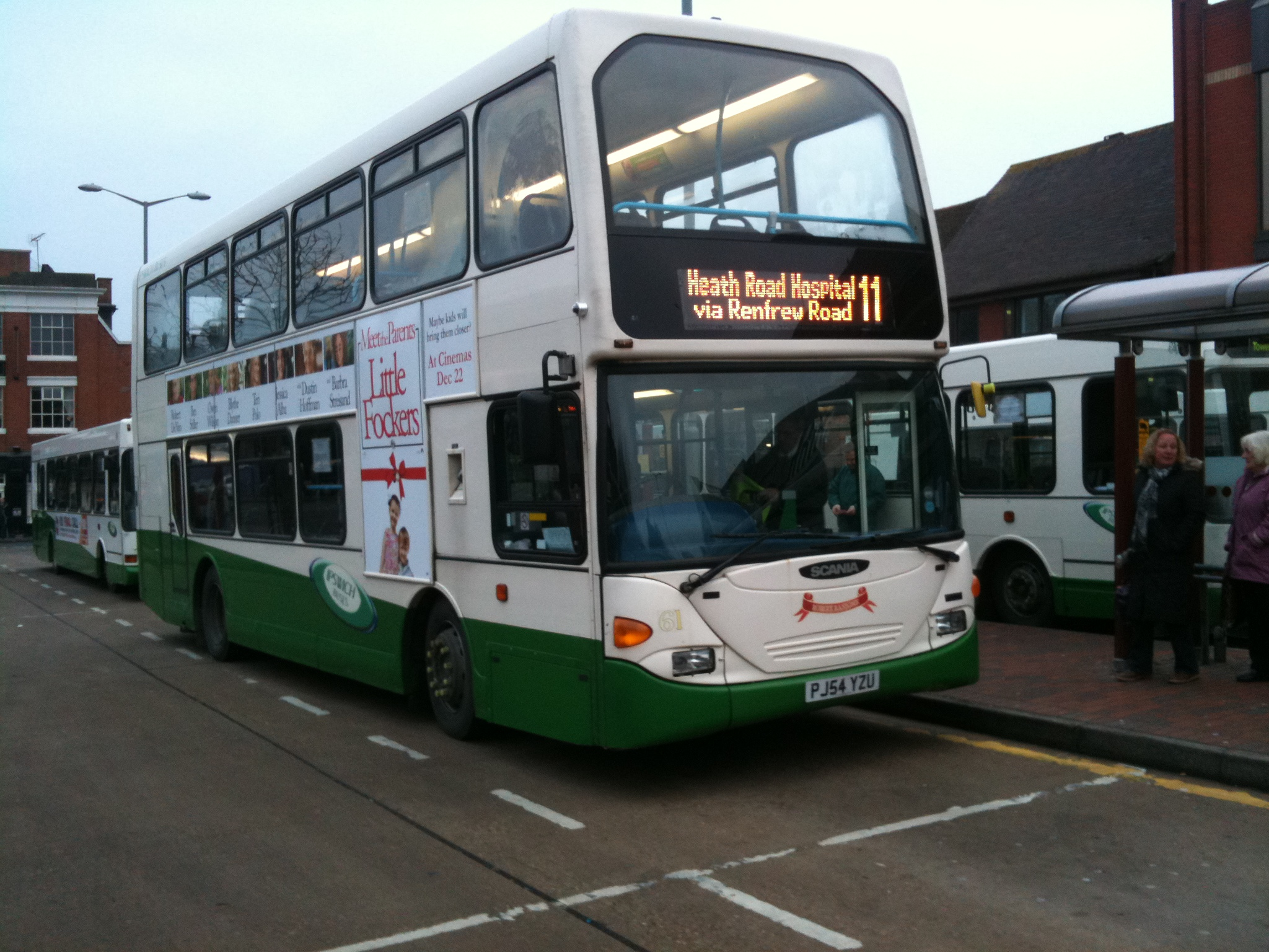 Ipswich Buses 61 (PJ54 YZU), a double-decker Scania N94UD OmniDekka bus, seen in Ipswich bus station, Ipswich, Suffolk, on route 11.